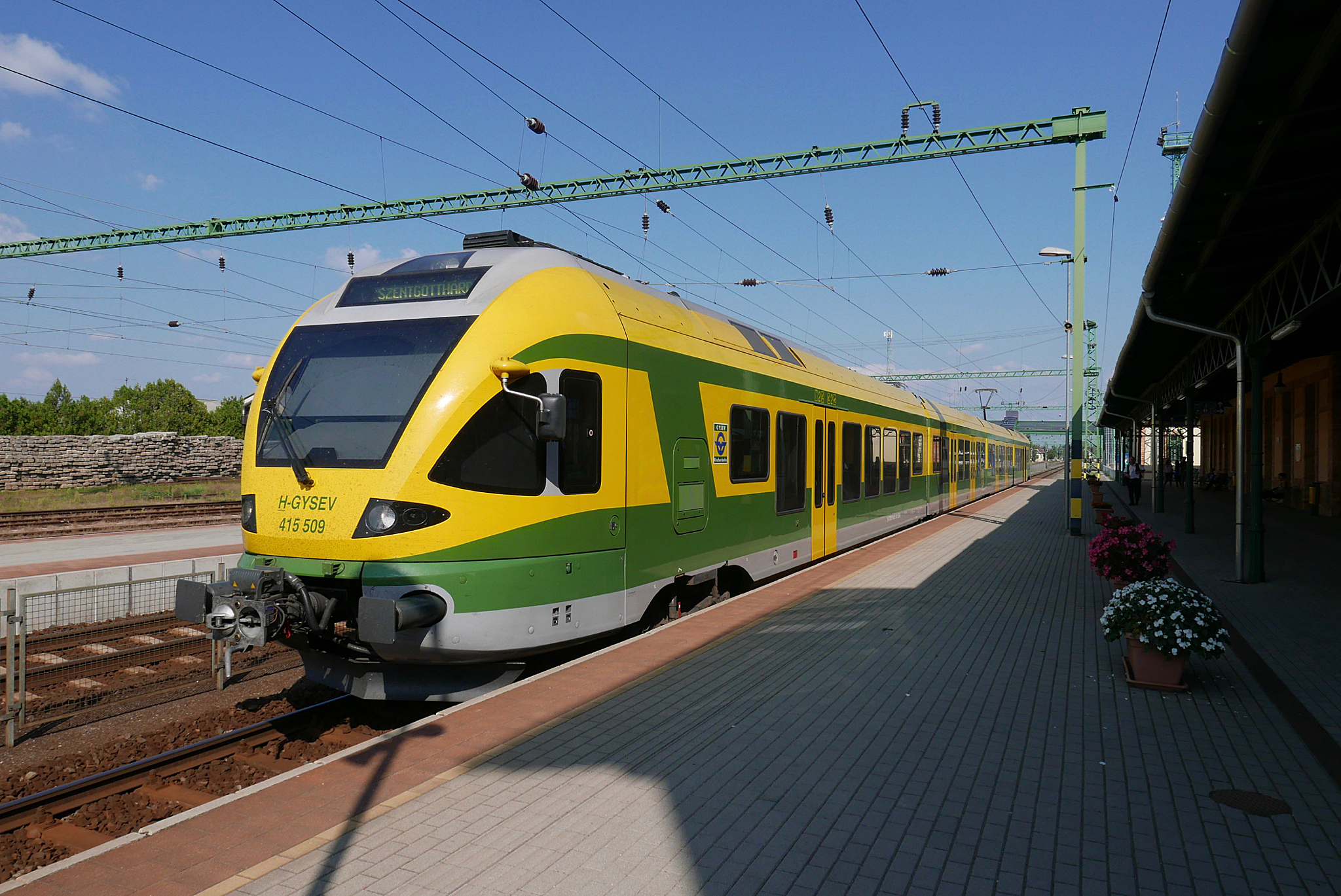 GySEV 415 509 at Körmend railway station.